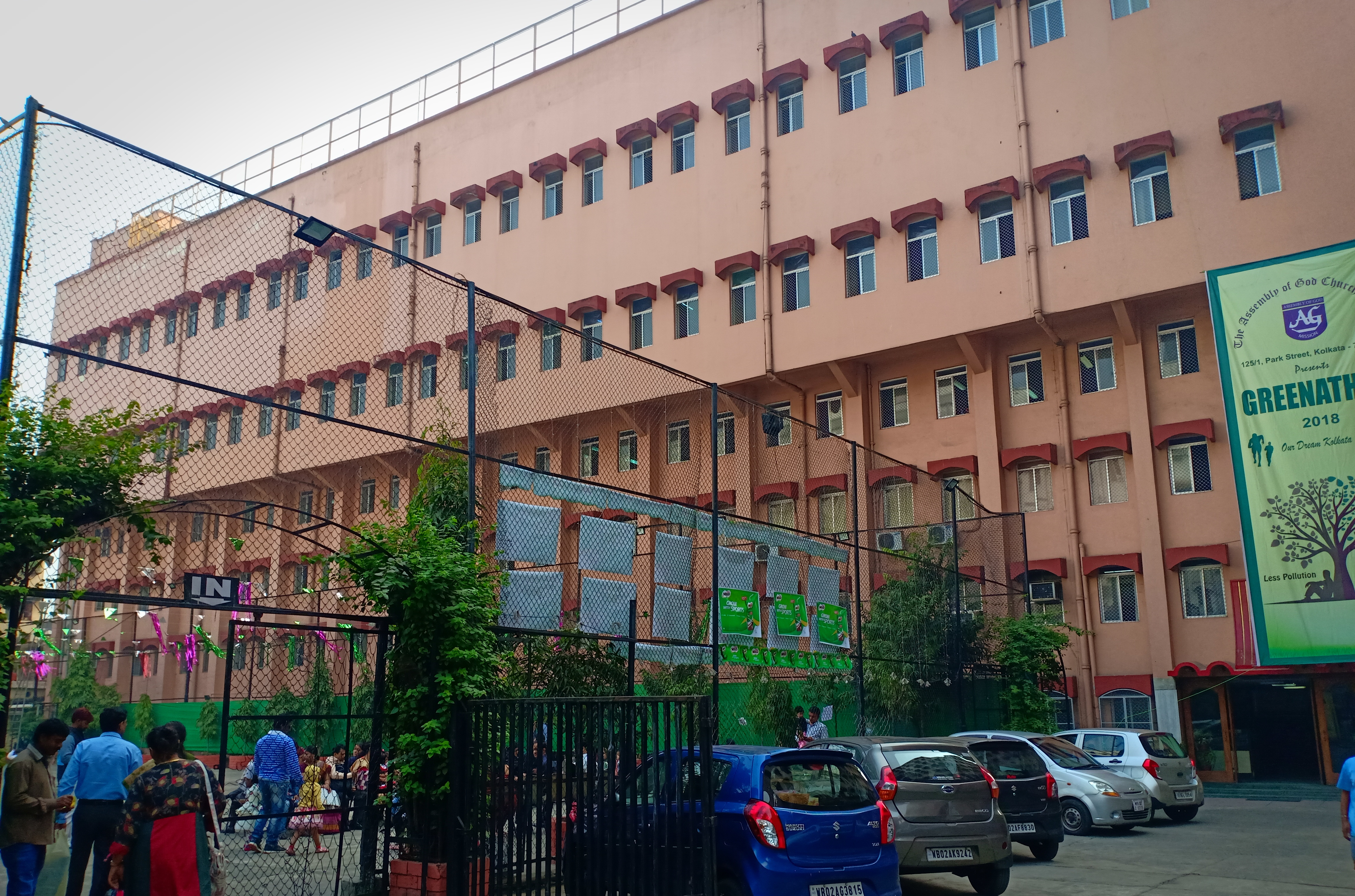 The main building of the senior school located at Park Street